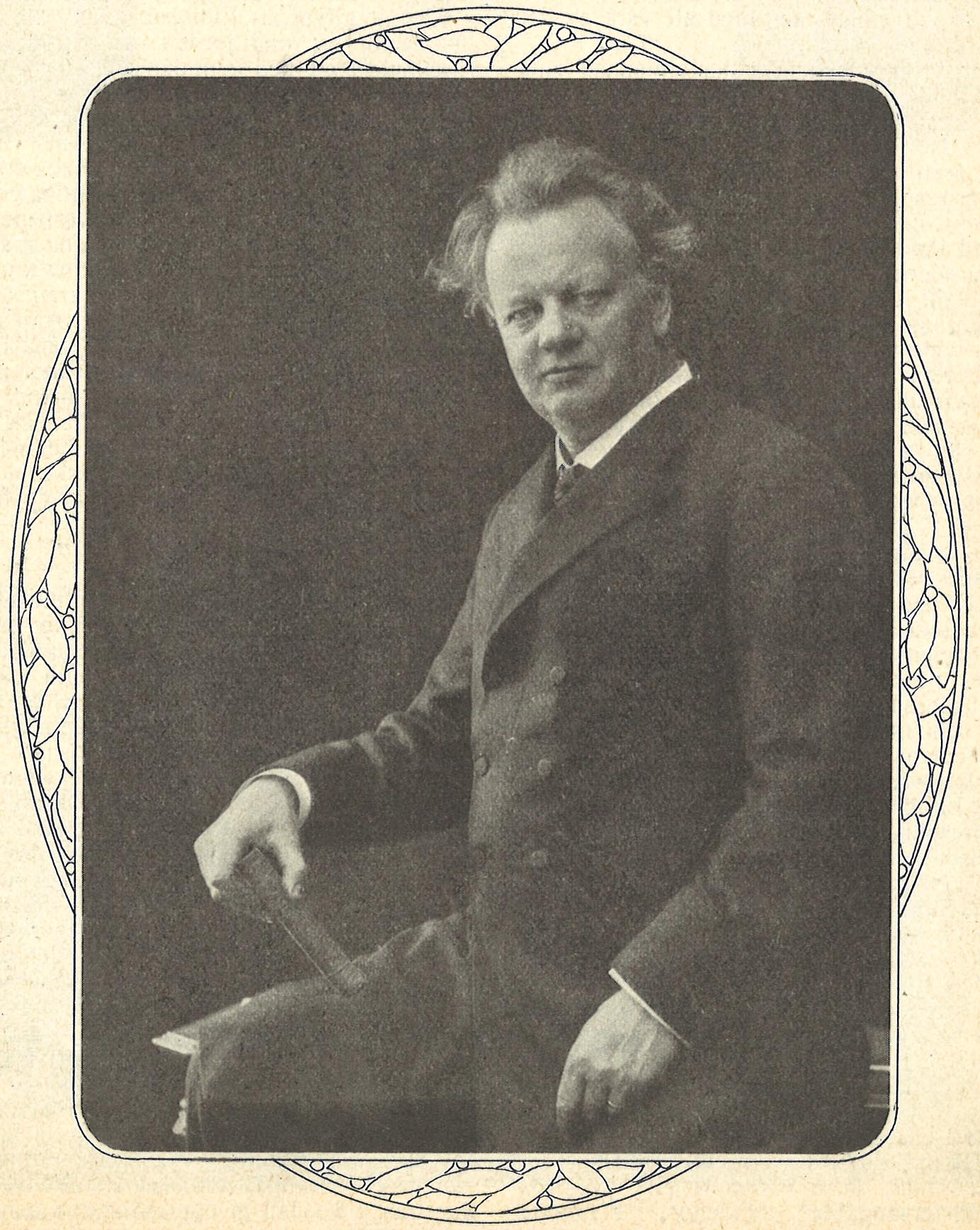 Johannes Elmblad (1853-1910), Swedish opera singer (bass) and director.